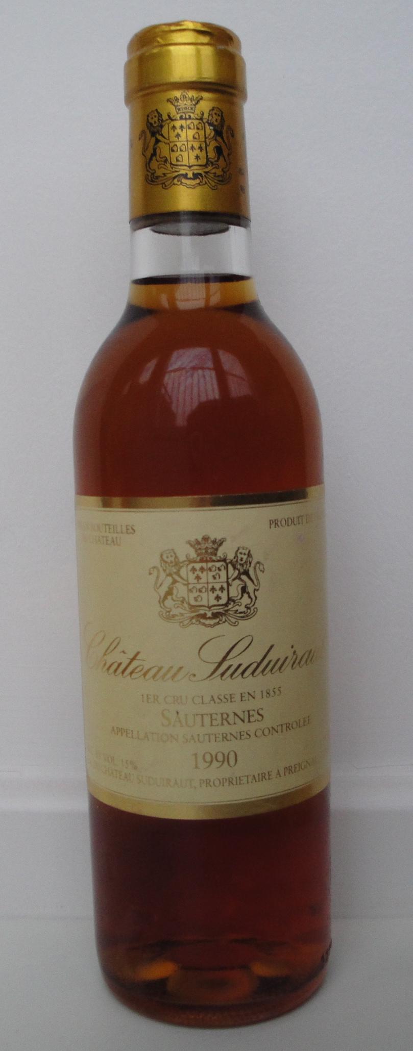 Half bottle of 1990 Château Suduiraut, a wine from Sauternes in Bordeaux, classified as a First Growth in the 1855 Bordeaux classification.